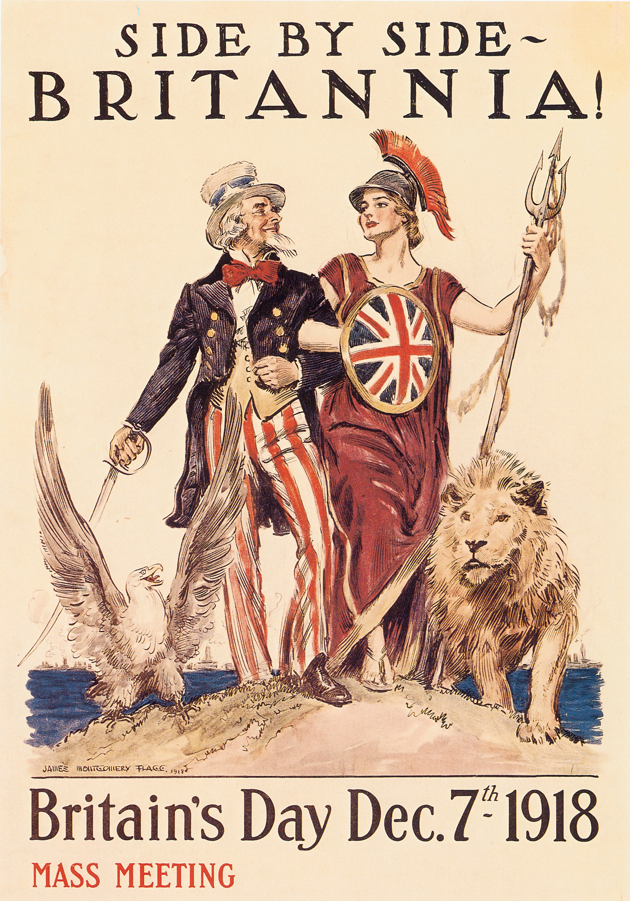 Britannia with the British Lion and Uncle Sam with the American Bald Eagle on a World War I poster.